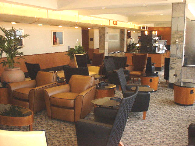 I took this picture.